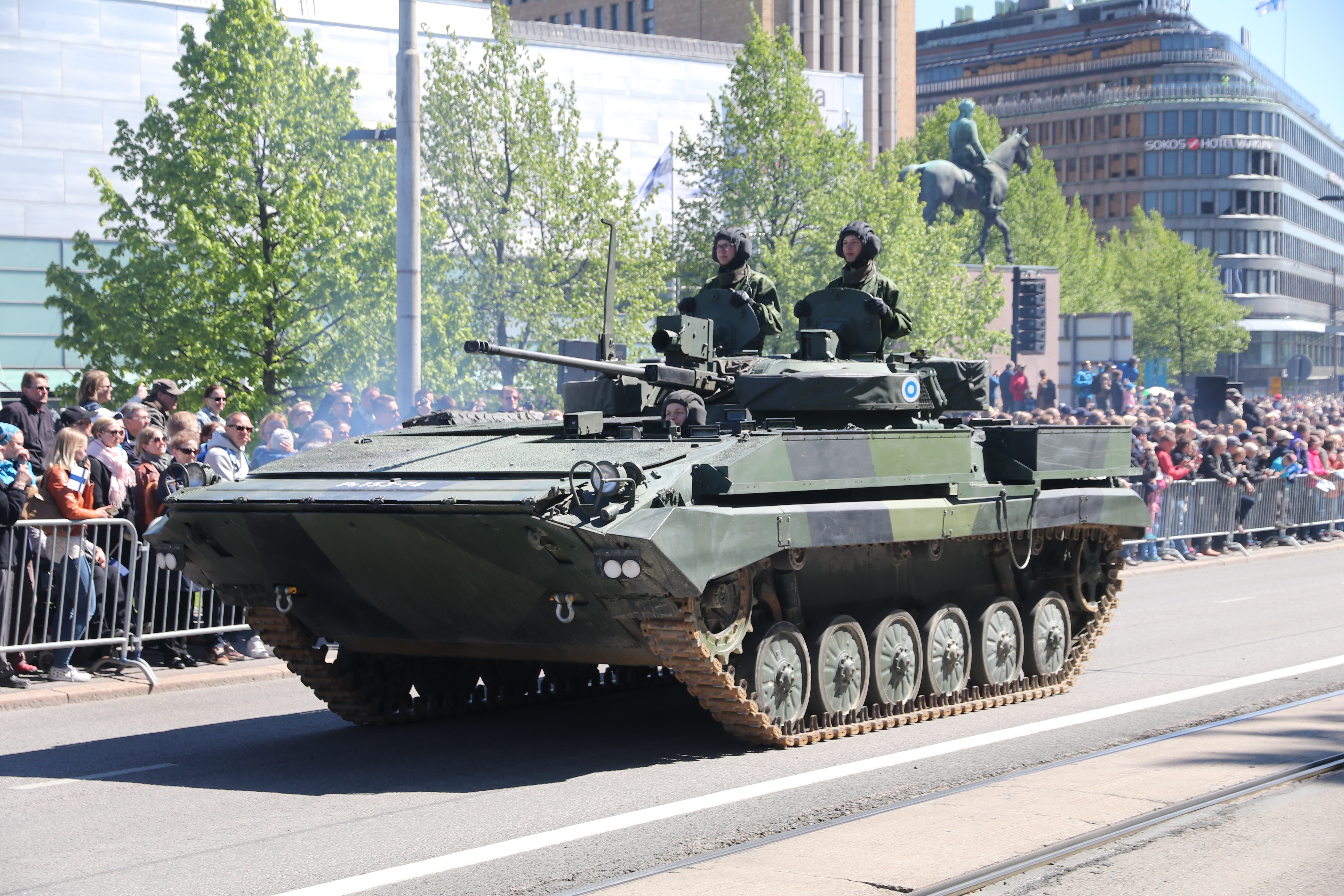 Finnish defence forces flag day 2017 parade: BMP-2M Ps 153-74.